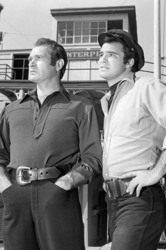 Promotional photo of Darren McGavin and Burt Reynolds in Riverboat for the series premiere, 1959